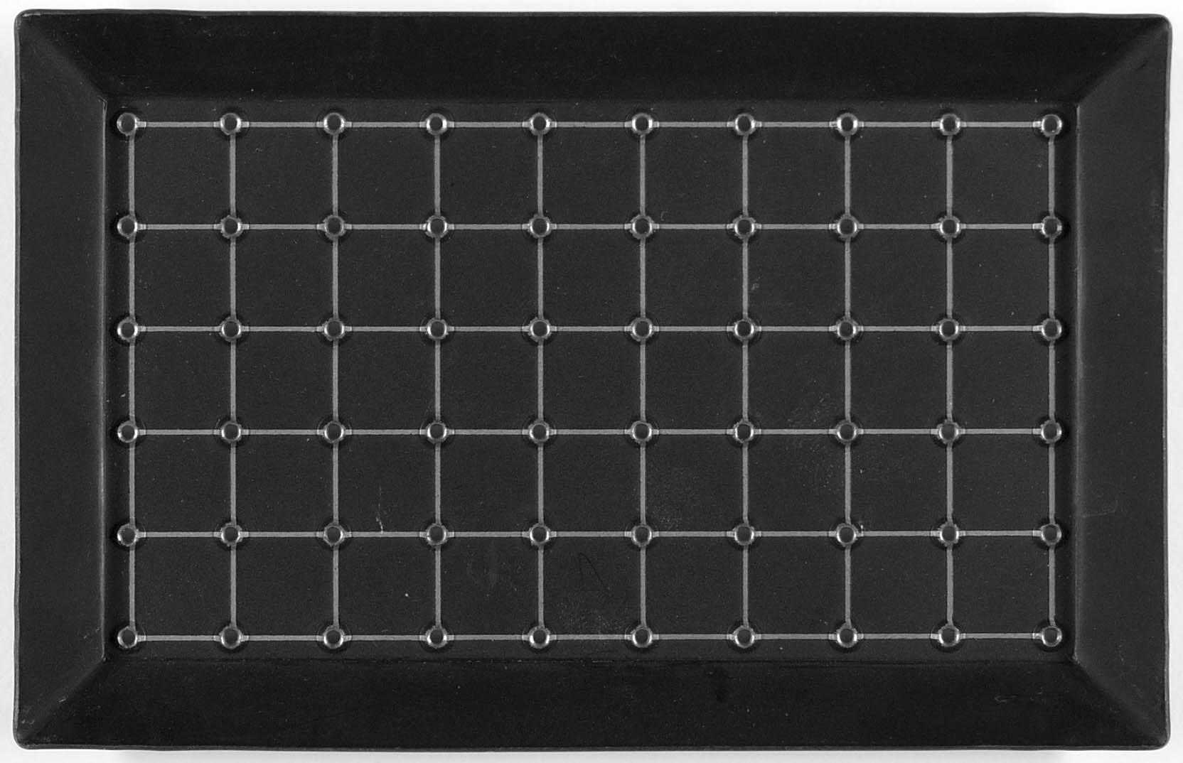 Picking tray for the investigation and selection of microfossil shells in the sand fraction. This is a tool for geologists/micropaleontologists working with a microscope.